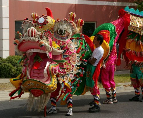 Sun Loong, the world's longest Imperial dragon and a major drawcard of the Bendigo Easter Festival Gala Parade.